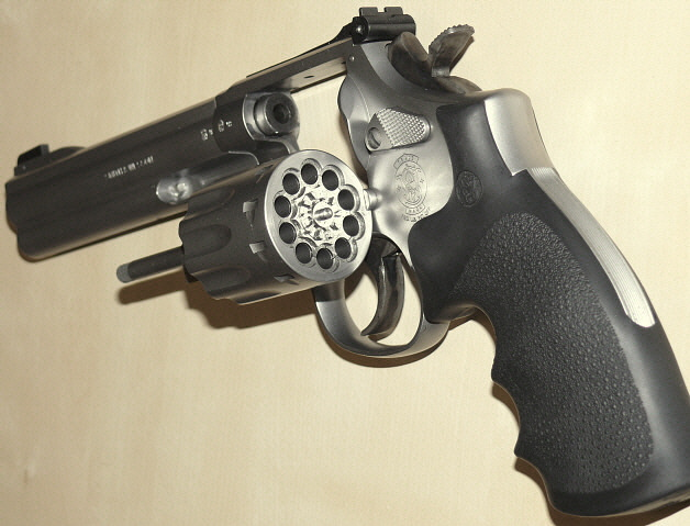 Smith&Wesson Model 617